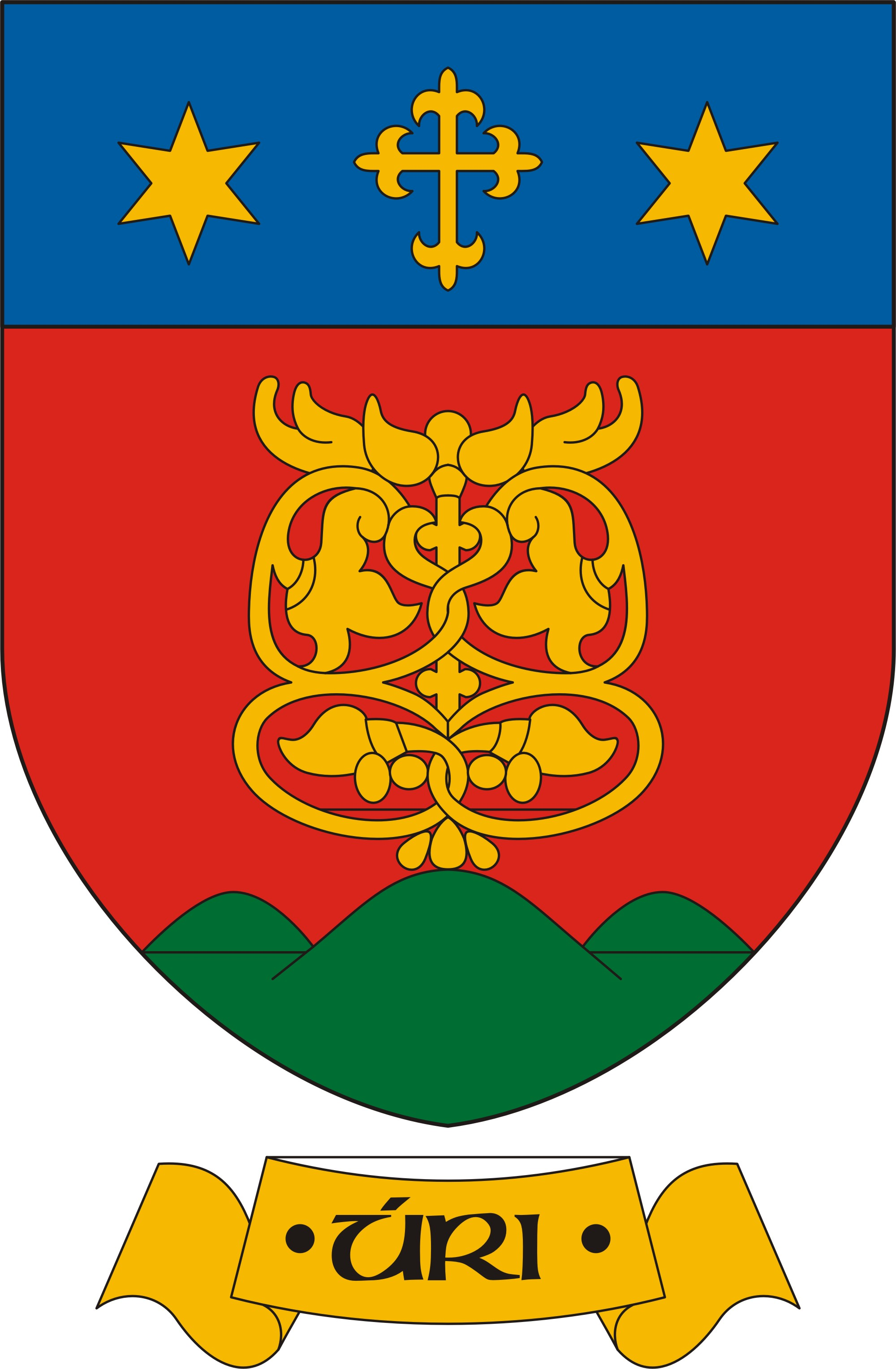 Coat of arms of Úri, Hungary